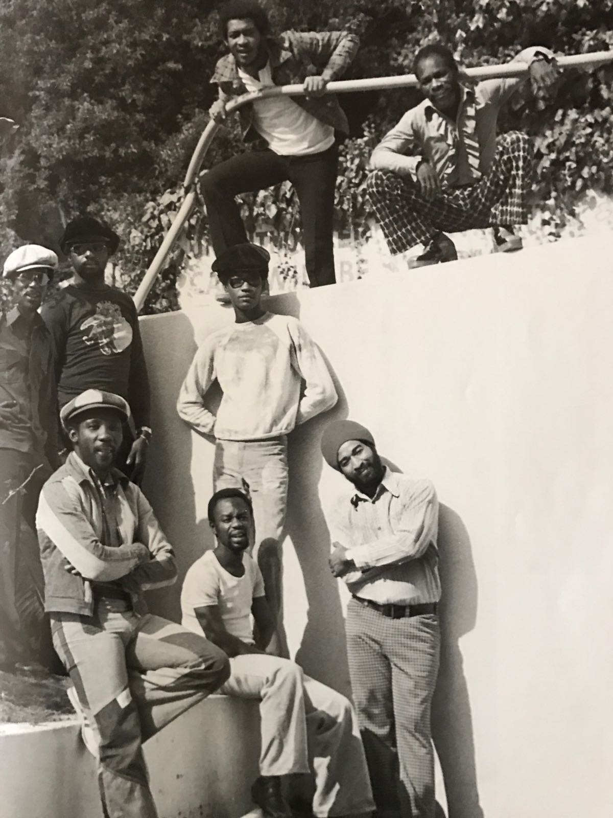 Toots and the Maytals circa 1976. Top row: Paul Douglas, Raleigh Gordon. Middle row: Jerry Mathias, Jackie Jackson, Radcliffe "Dougie" Bryan. Bottom row: Toots Hibbert, Hux Brown, Ansel Collins.